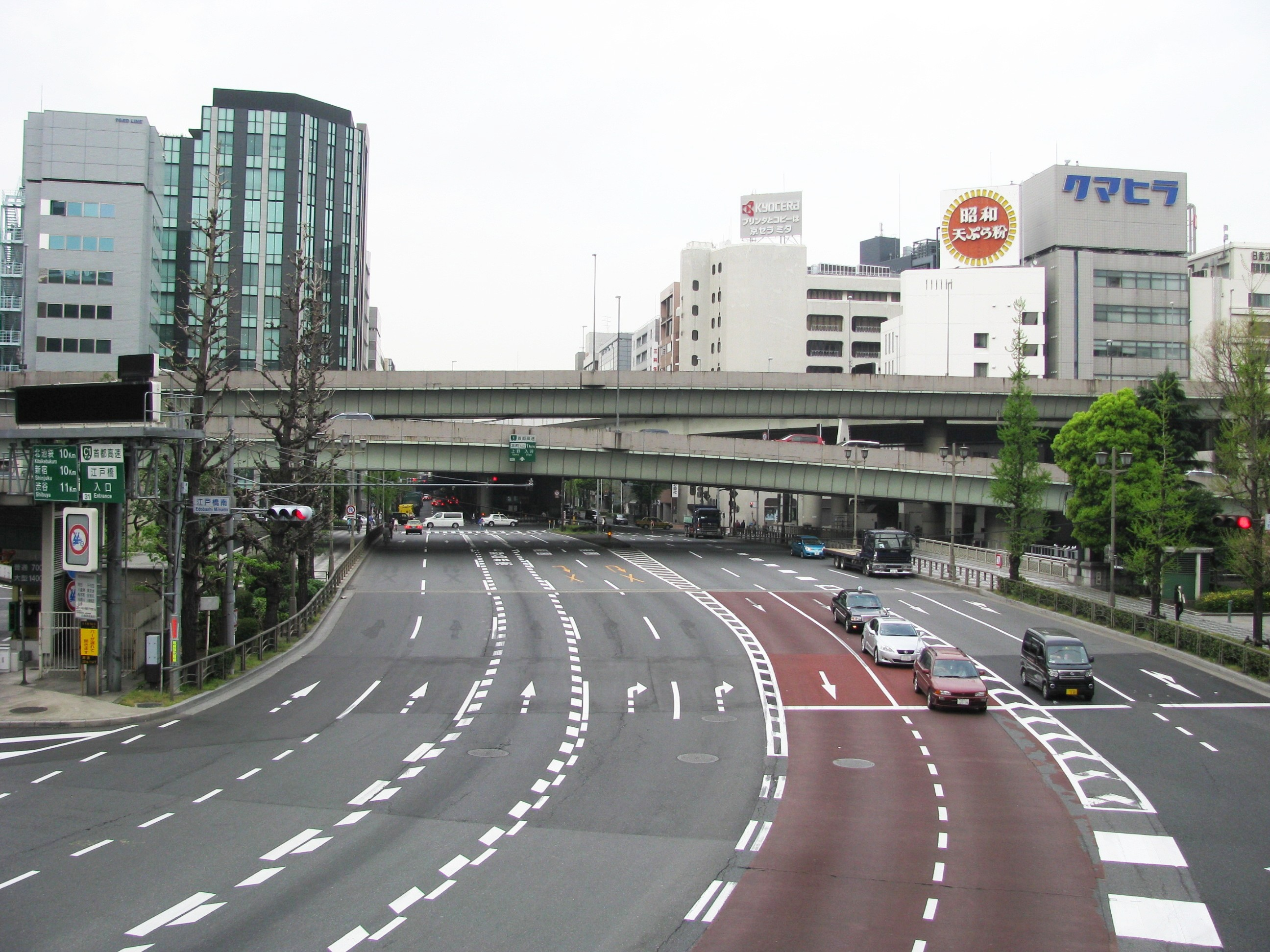 The Edo-bashi of Tokyo Prefectural Route 316. This location is Nihonbashi in Chūō, Tokyo, Japan.